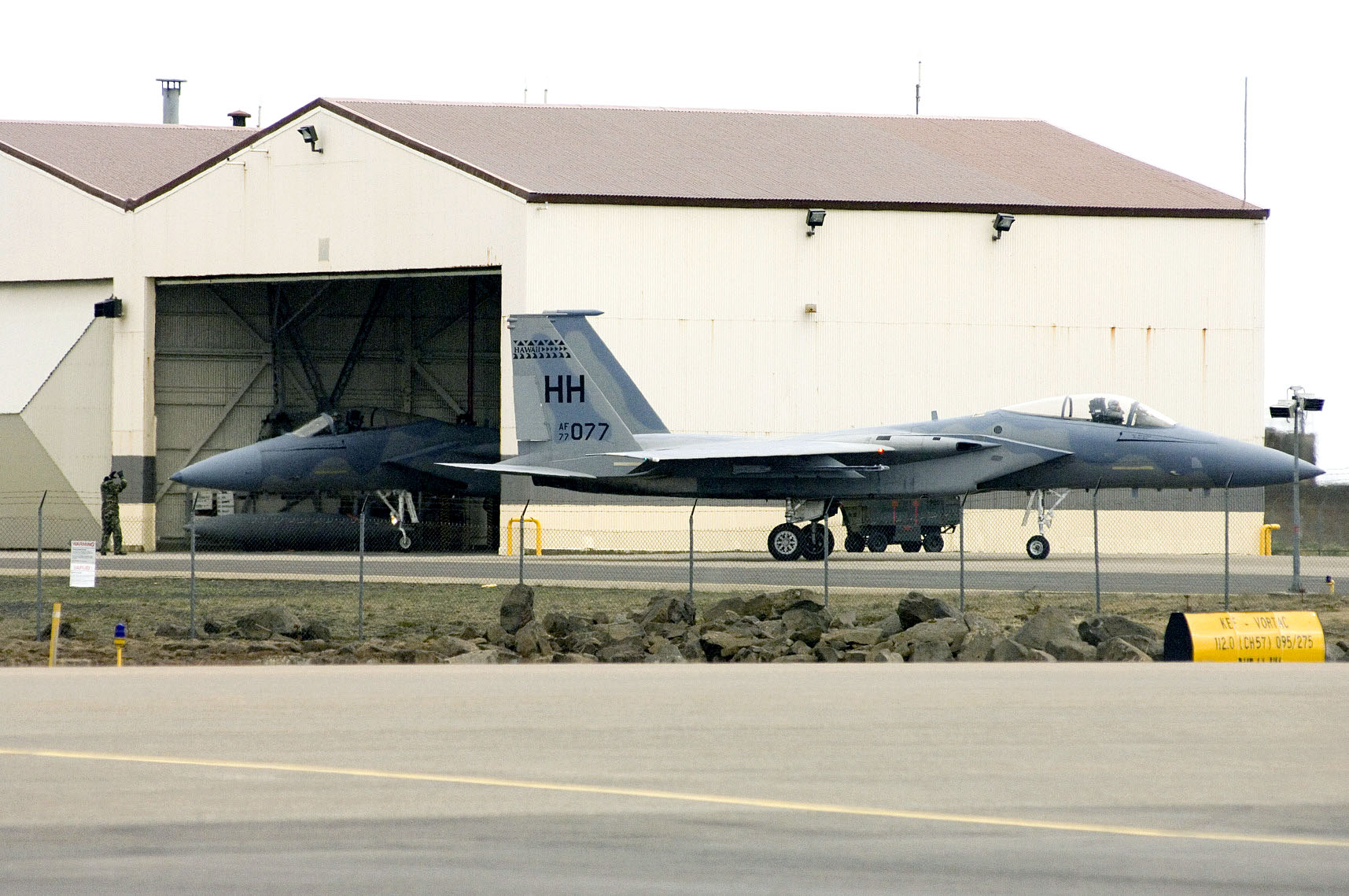 Two U.S. Air Force McDonnell Douglas F-15A-18-MC Eagle fighters (s/n 77-0074, 77-0077) assigned to the 199th Fighter Squadron, 154th Wing, Hawaii Air National Guard at NAS Keflavik, 22 May 2006. F-15 Eagle operations continued a while longer at Naval Air Station Keflavik, Iceland, while Airmen and Sailors reduced operations after more than 50 years of United States presence at the base. The F-15s and crews are from the Hawaii Air National Guard's 154th Wing at Hickam Air Force Base.